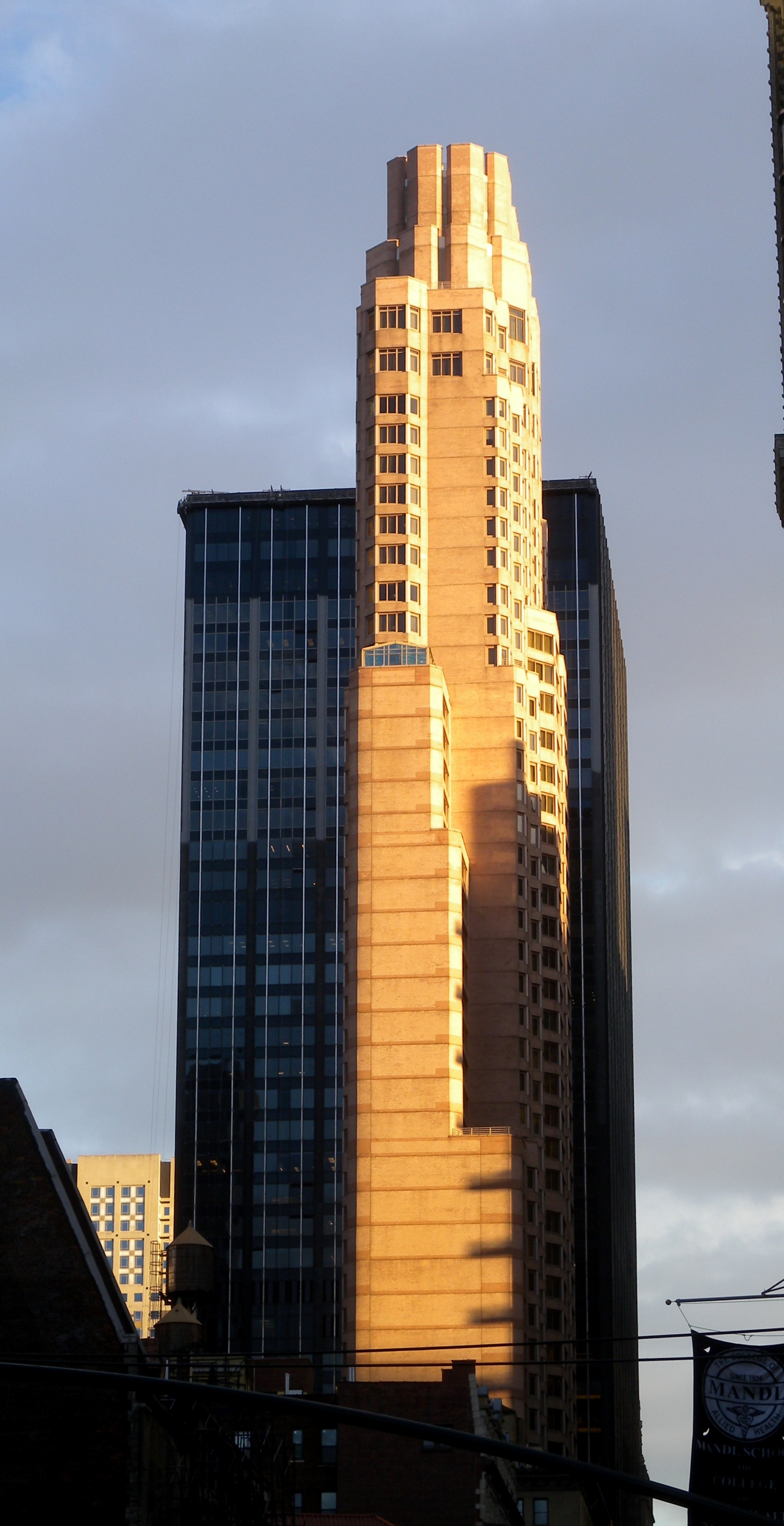 Looking east across 8th Ave and along 54th St at The London NYC on a sunny afternoon.